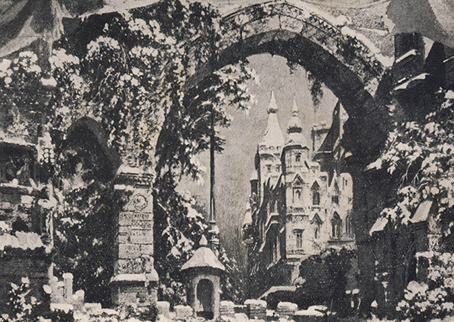 Amleto-1871-Facio-set for act 1